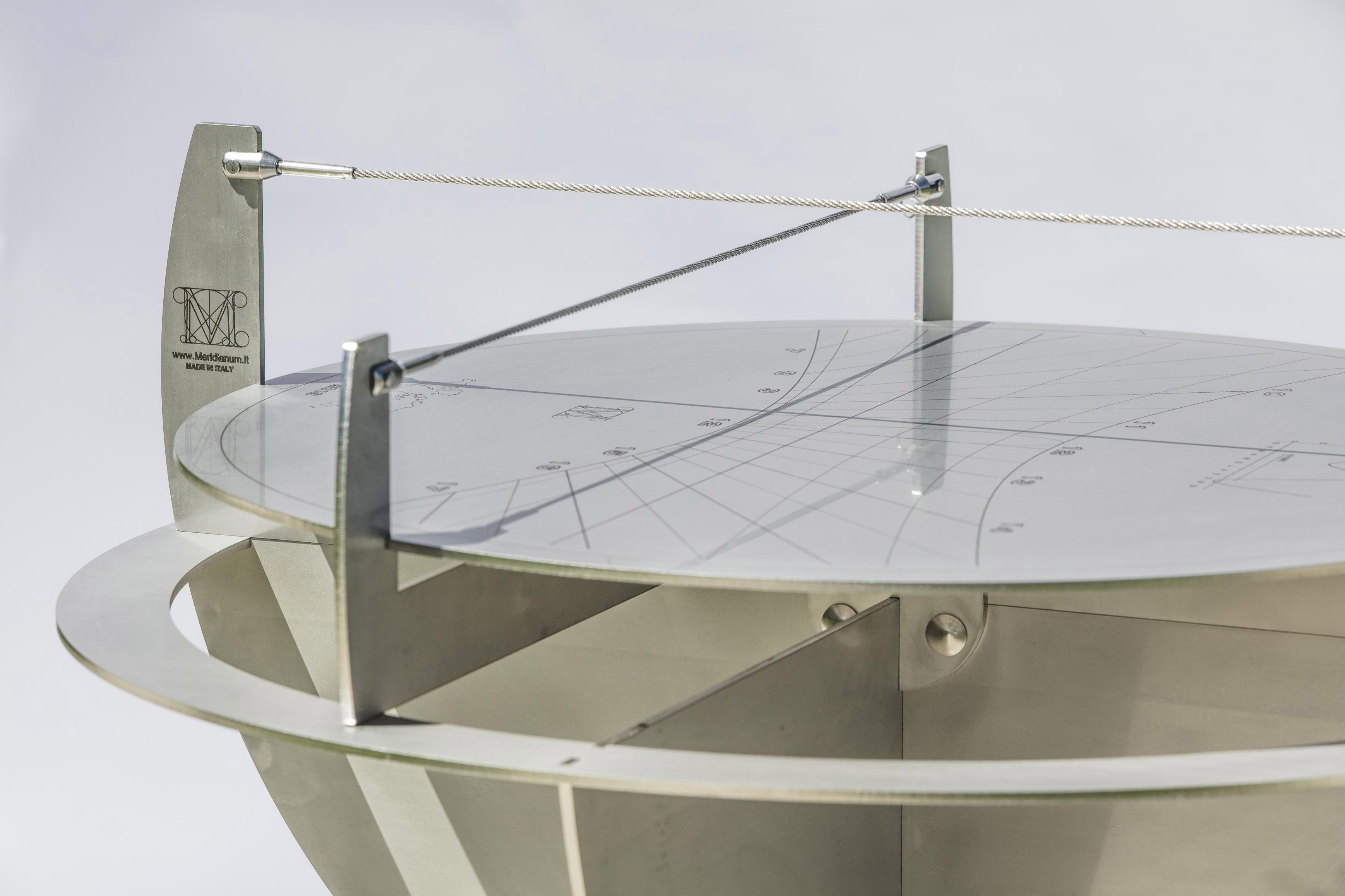 A modern reinterpretation of an ancient item. Interlocking geometries for this sundial artwork made of stainless steel.